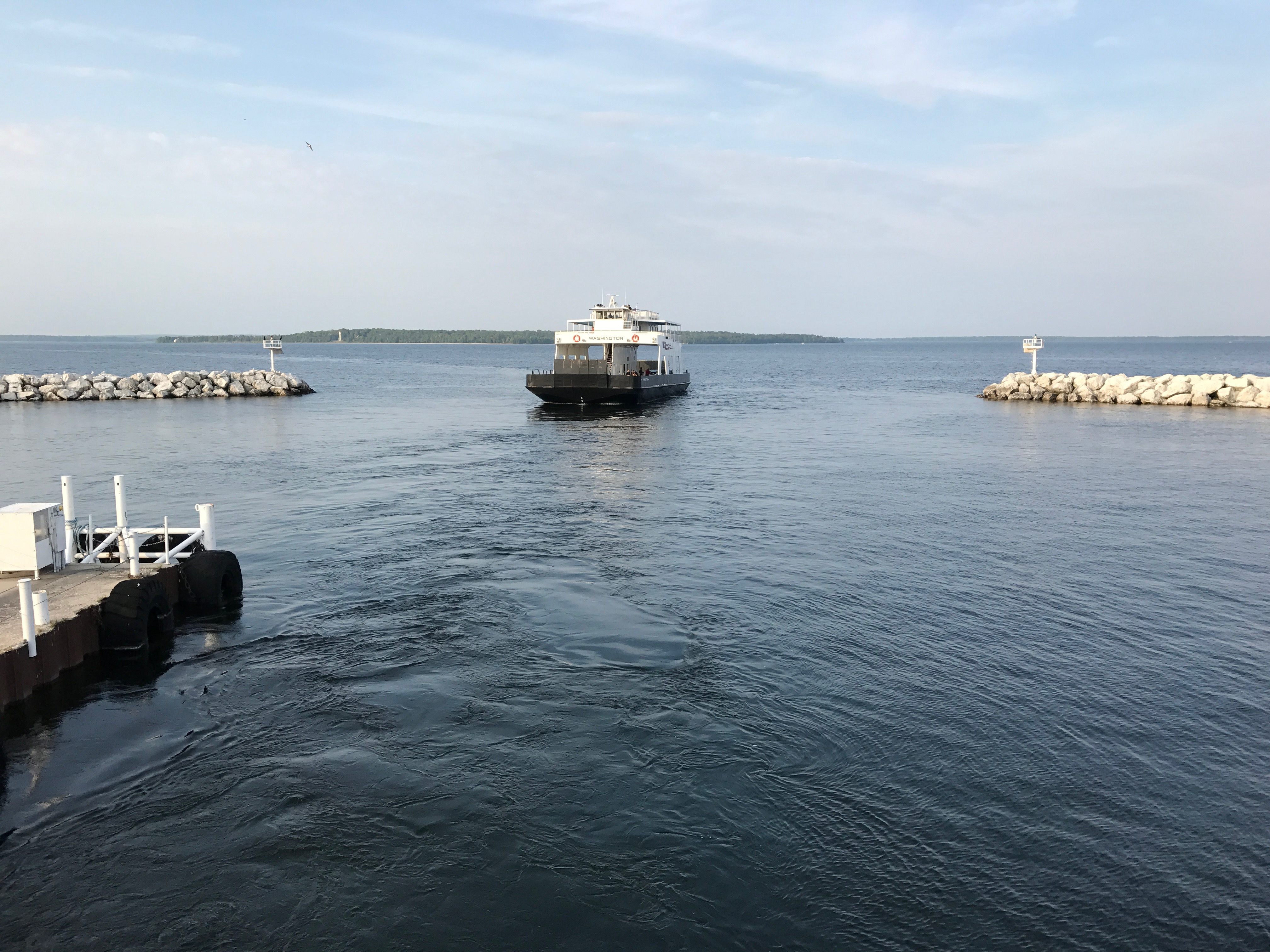 The Washington leaves harbor at Northport, Wisconsin.